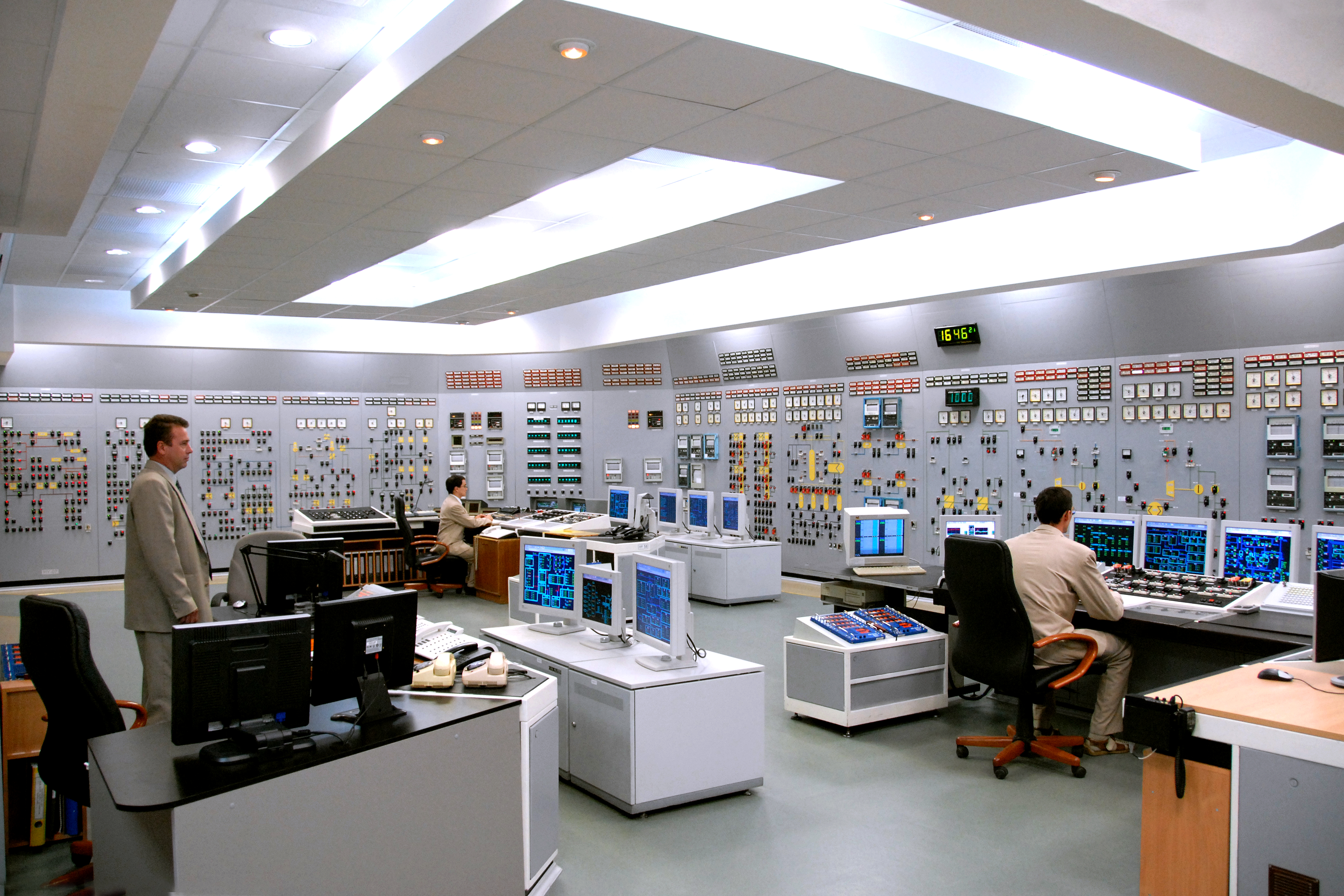 A control room of the Balakovo Nuclear Power Plant